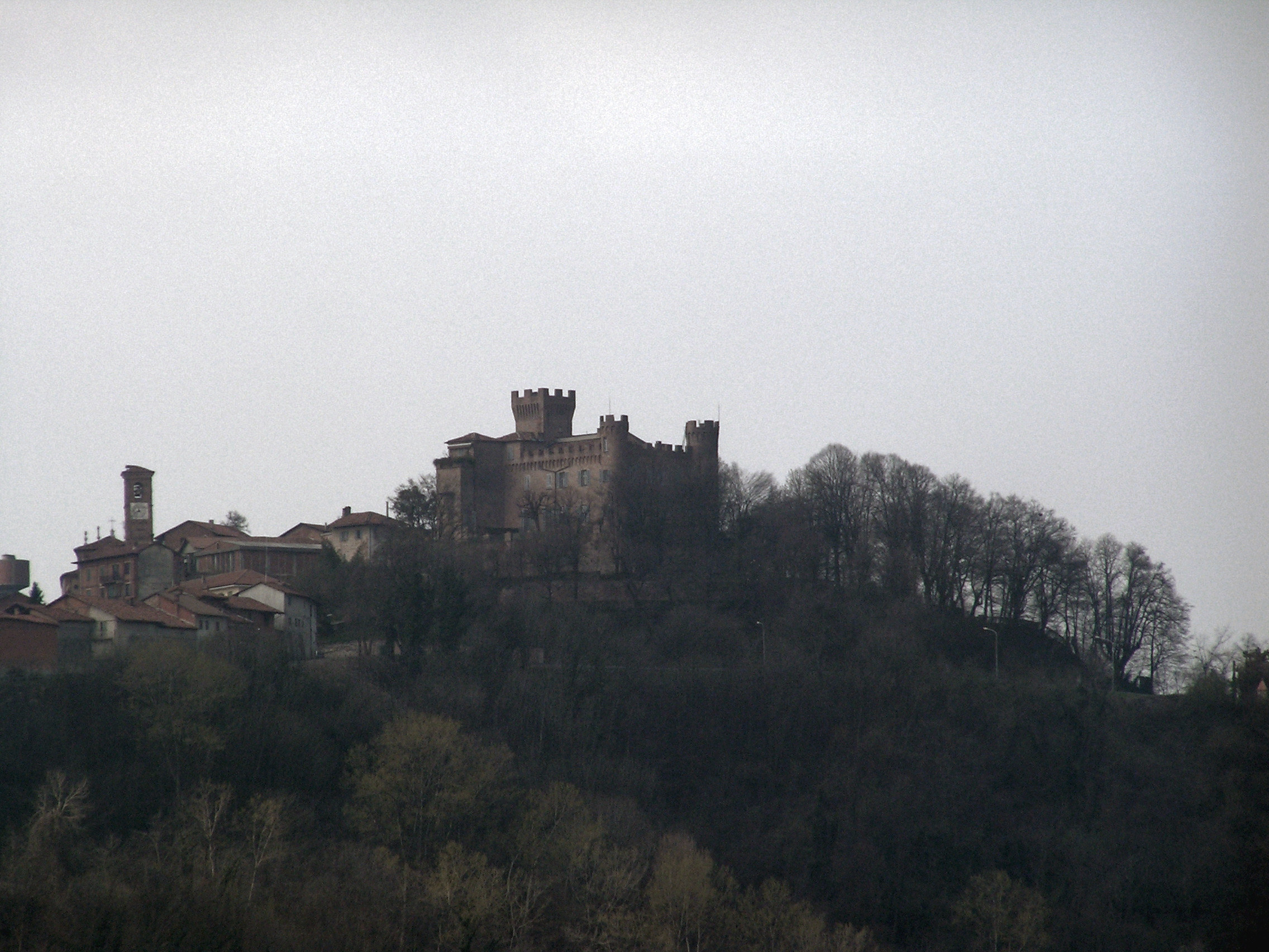 Castle of Cinzano, Piemont, Italy